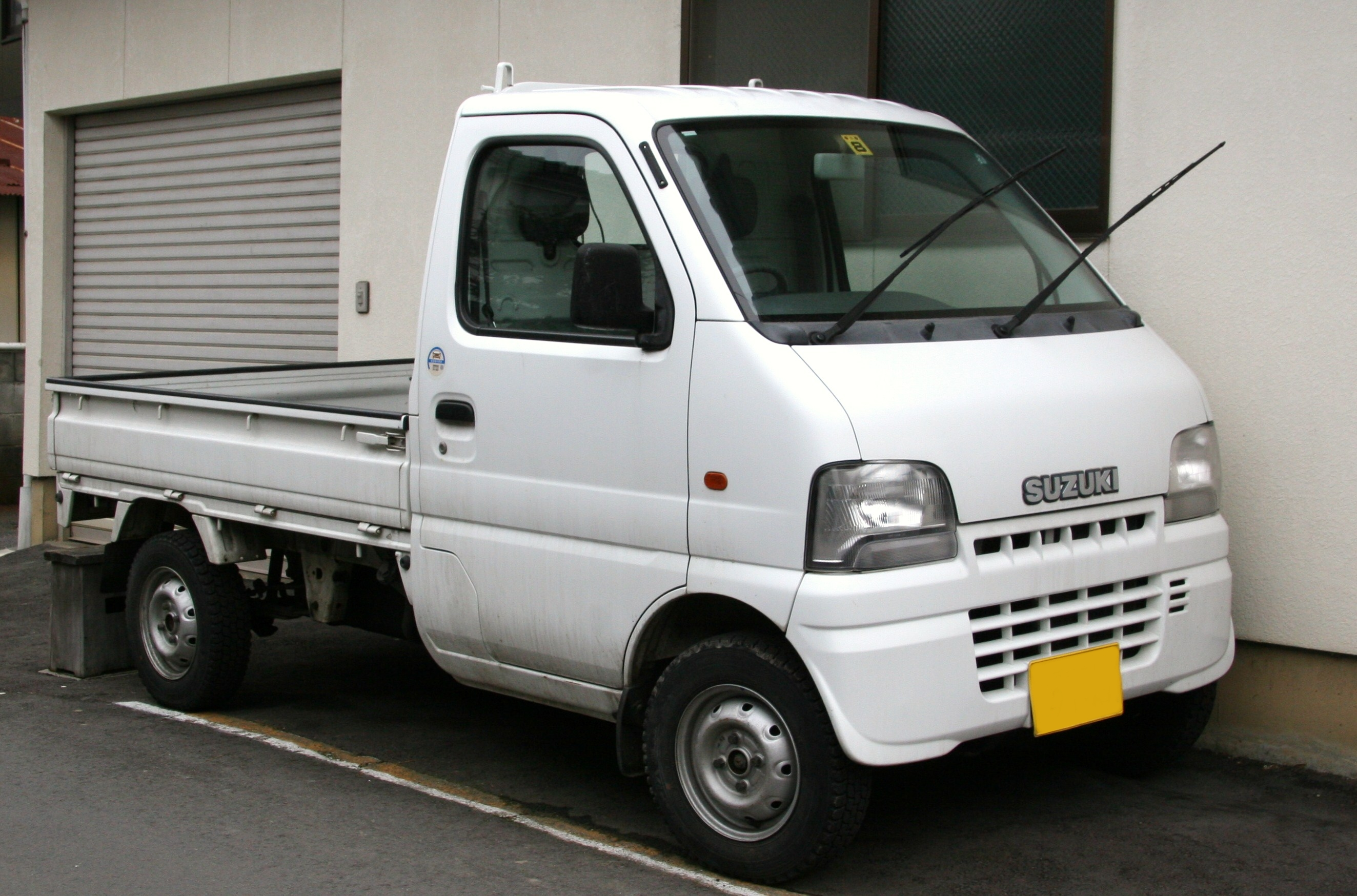 Suzuki Carry